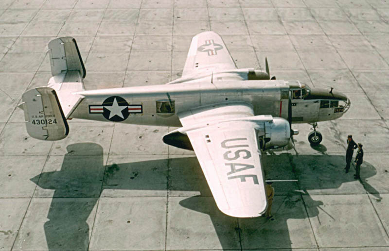 North American VB-25J Mitchell 44-30124 at Hamilton Field 1948.